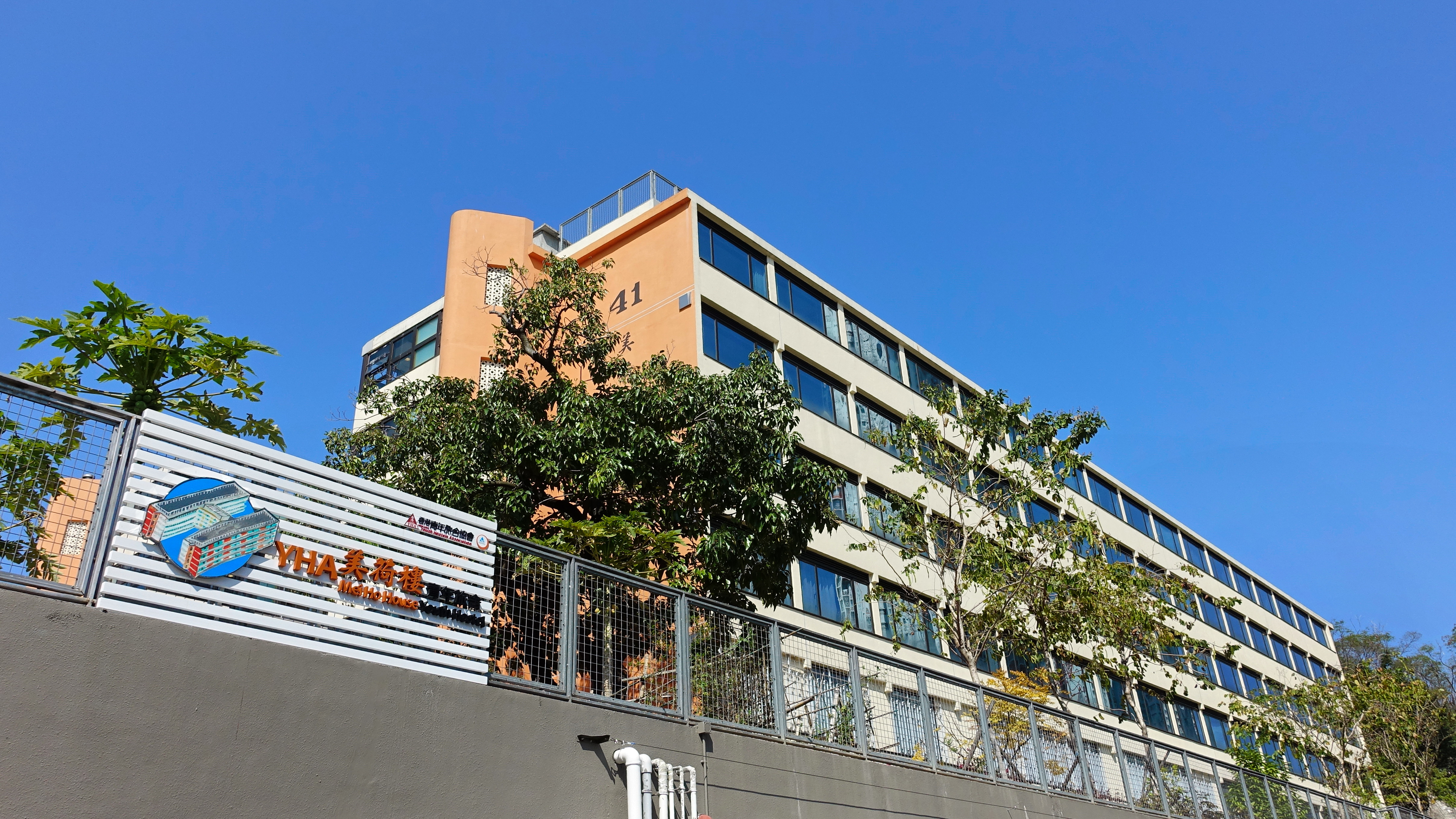 Mei Ho House Youth Hostel, Shek Kip Mei, Kowloon, Hong Kong.